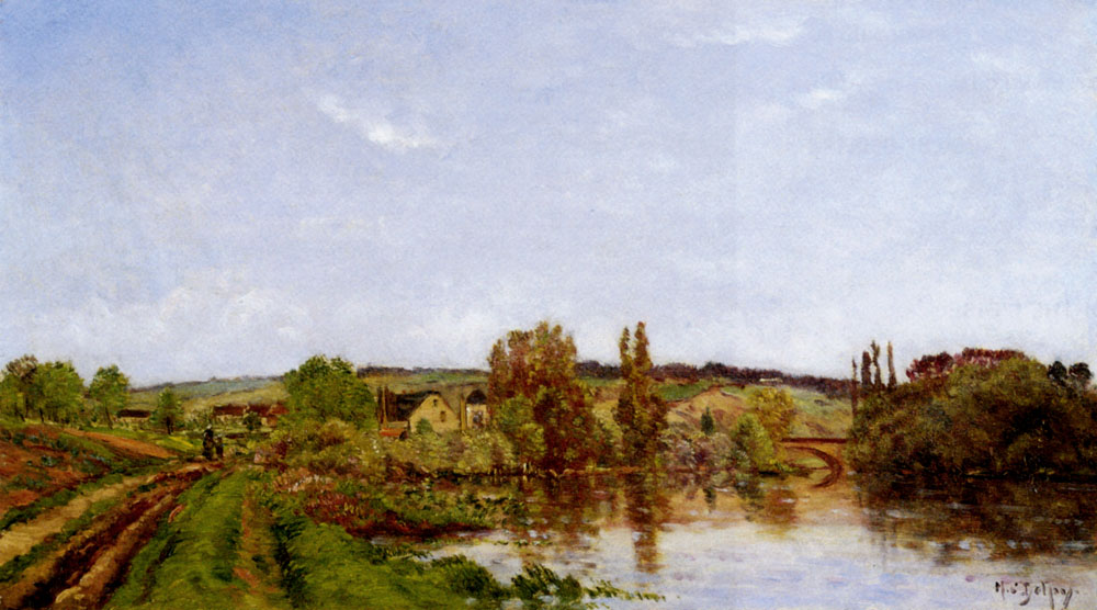 Hippolyte Camille Delpy's art